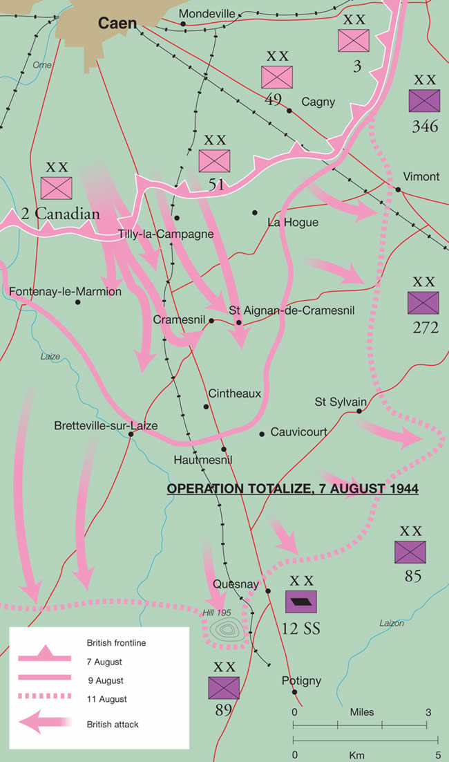 Operation Totalise, this map shows the divisions involvled and the location of the fighting.